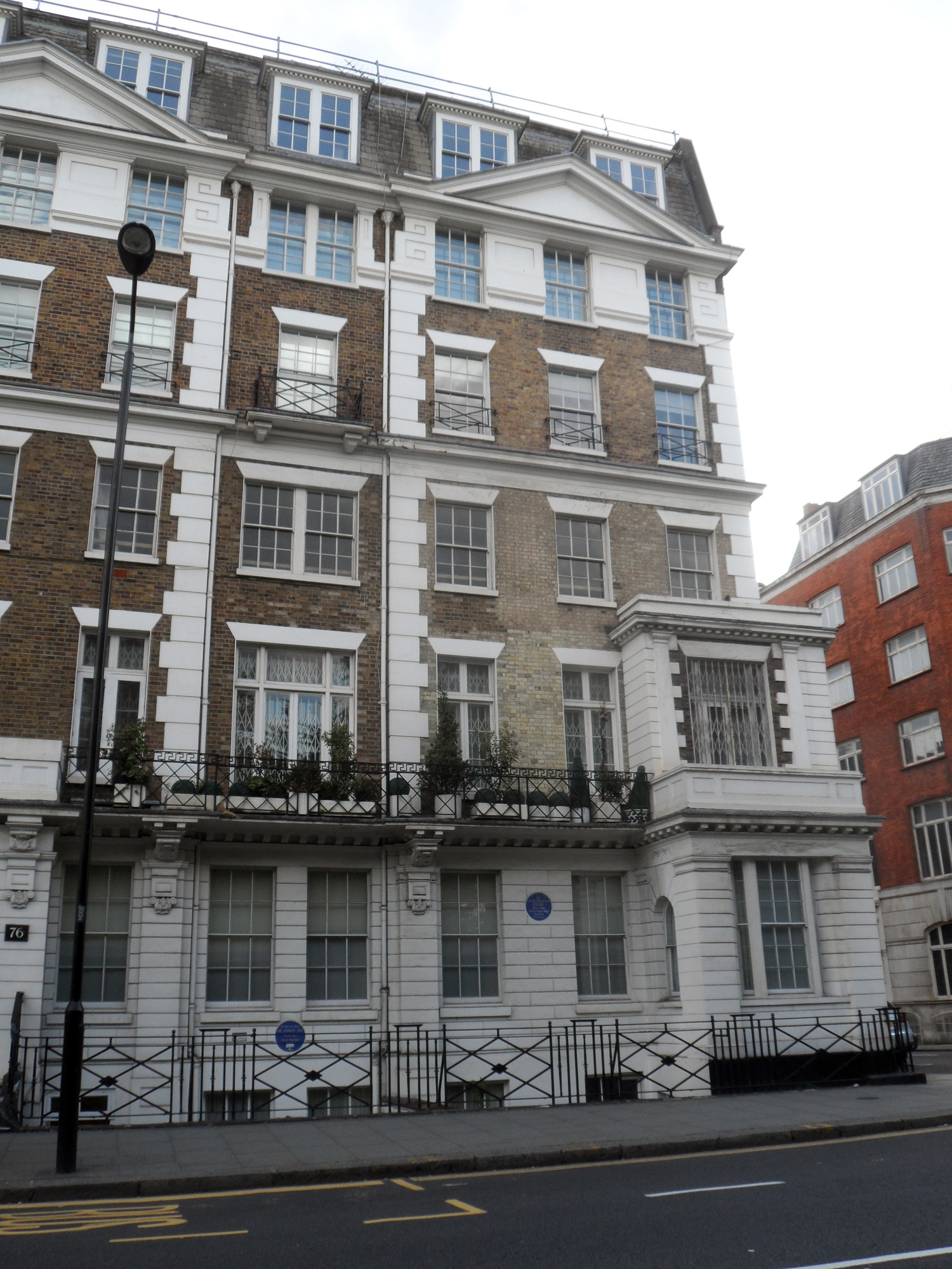 Sir Charles Wentworth DILKE 1843-1911 Statesman and Author lived here